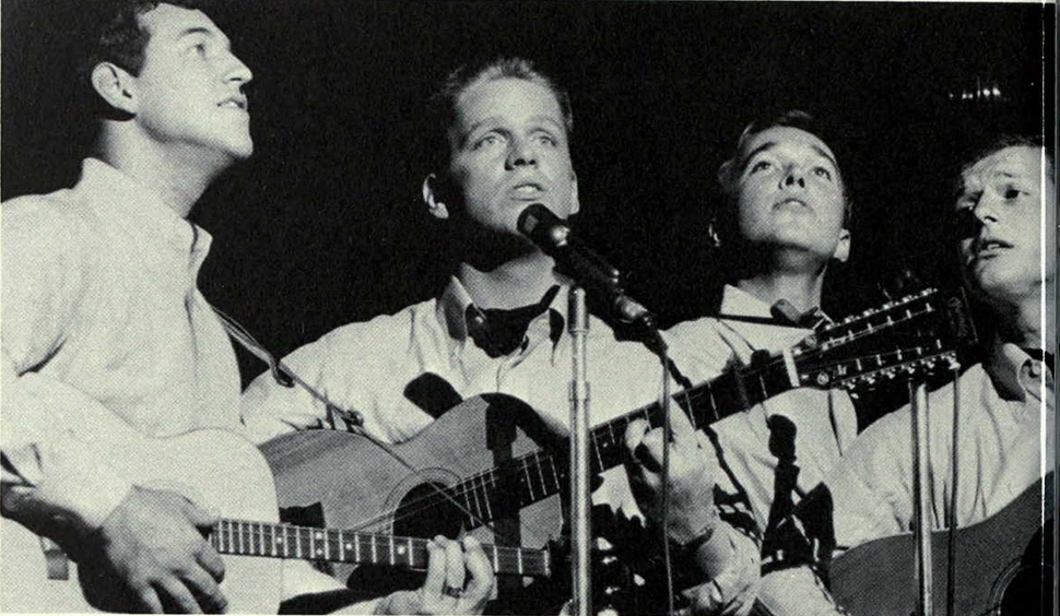 Photograph of Brothers Four at the University of Michigan, Hill Auditorium